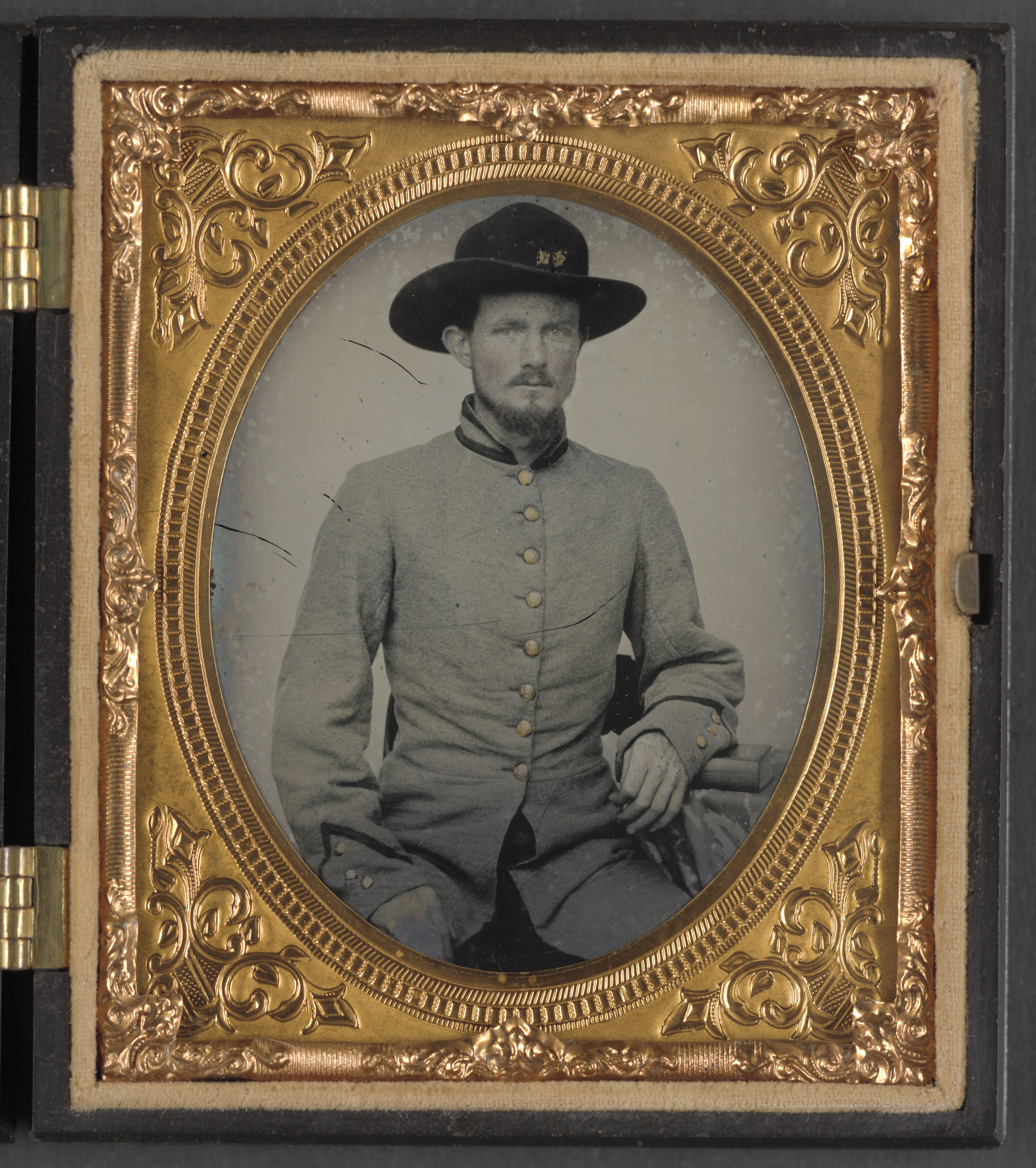 Title: Private Peter H. Bird of Co. D, 2nd Virginia Cavalry Regiment, in uniform Abstract/medium: 1 photograph : sixth-plate ambrotype, hand-colored ; 9.5 x 8.4 cm (case)